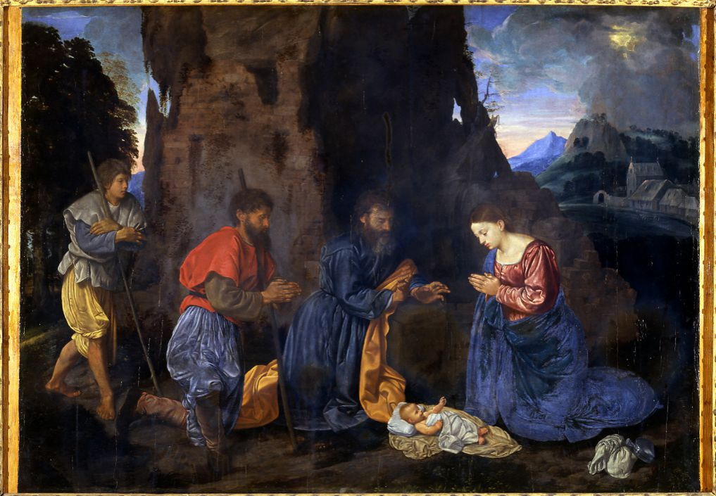 Adorazione dei pastori, Galleria Sabauda